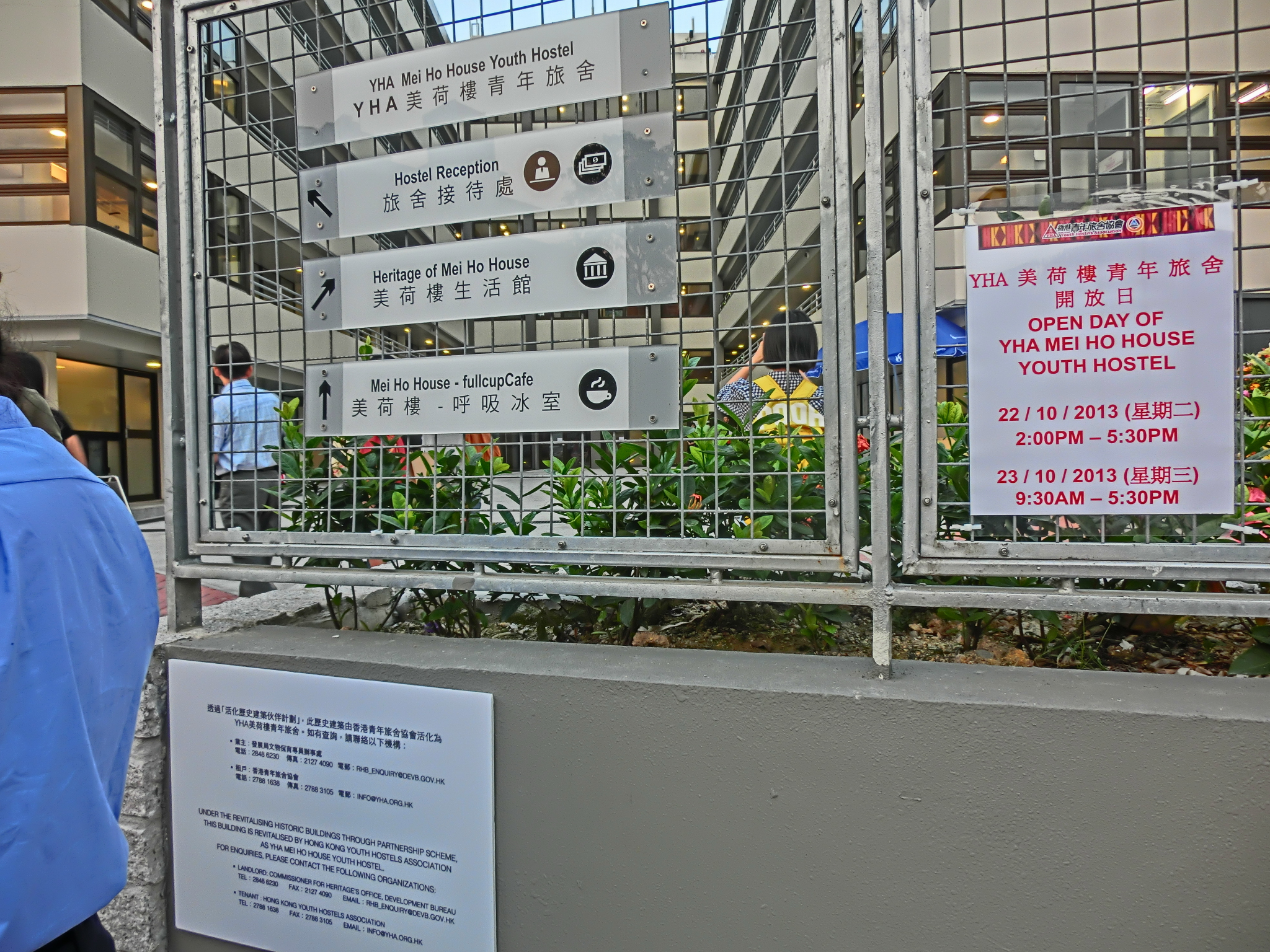 深水埗 石硤尾邨 美荷樓, 香港青年旅舍協會, Mei Ho House, Shek Kip Mei Estate, Sham Shui Po, Hong Kong